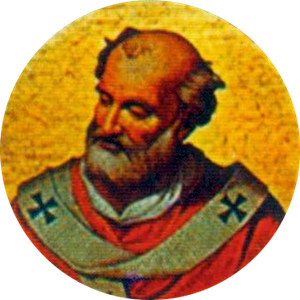 Portait of Pope Gregory V in the Basilica of Saint Paul Outside the Walls, Rome